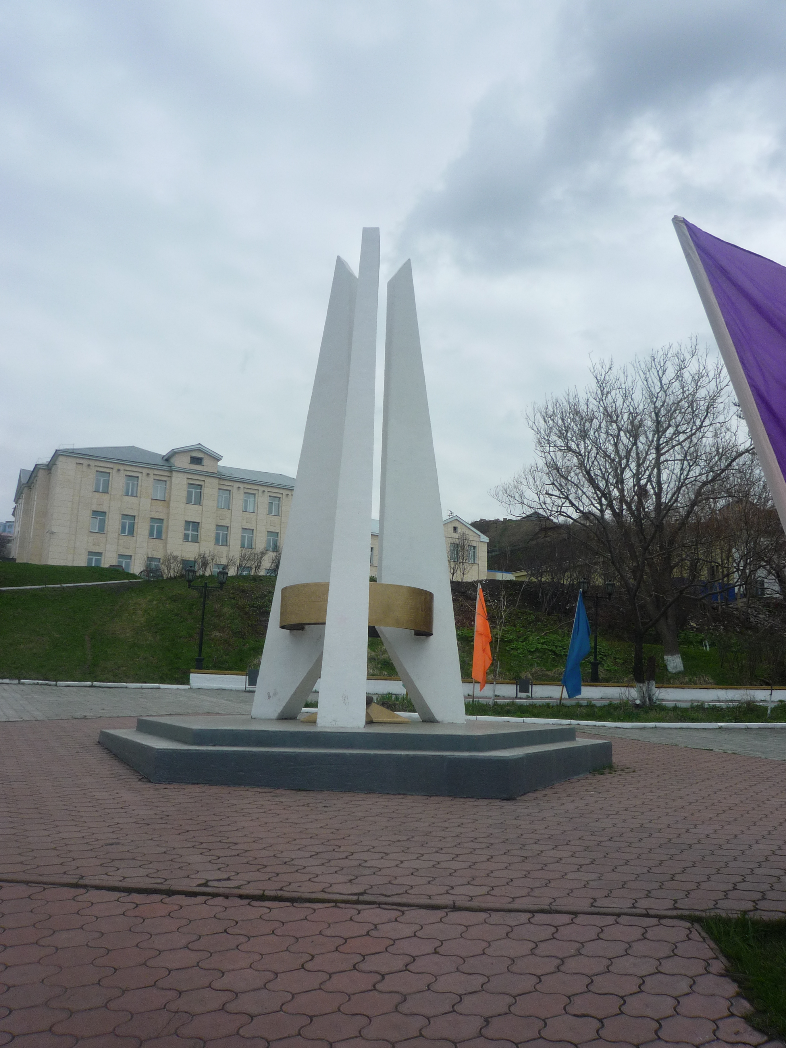 Памятник на братской могиле советских воинов (Холмск)